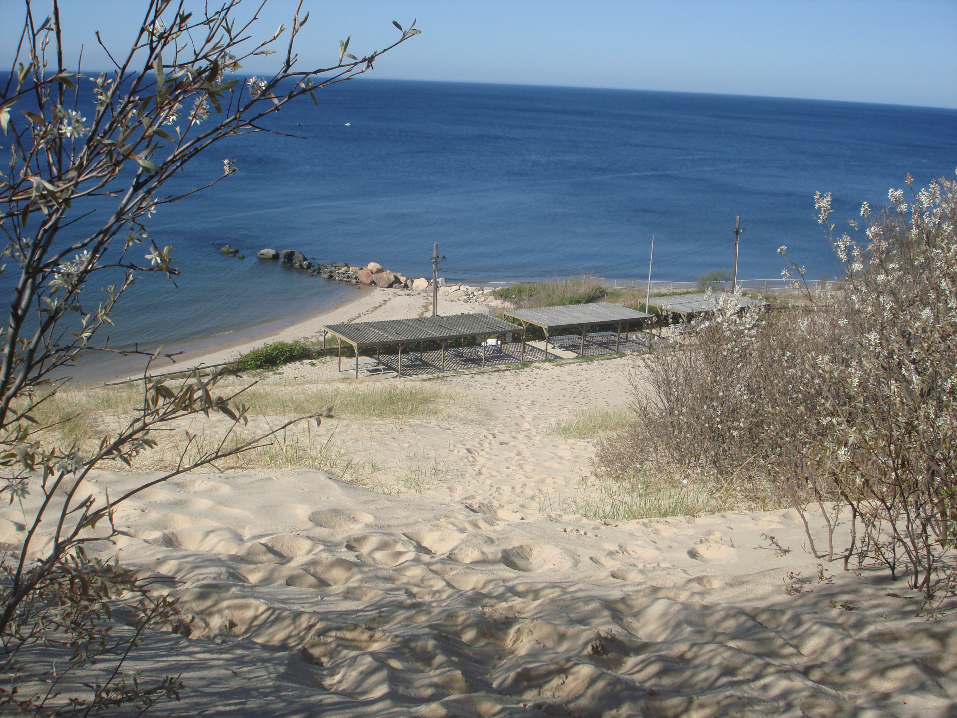 Rocky Point Landing on the Long Island Sound in Rocky Point, New York.